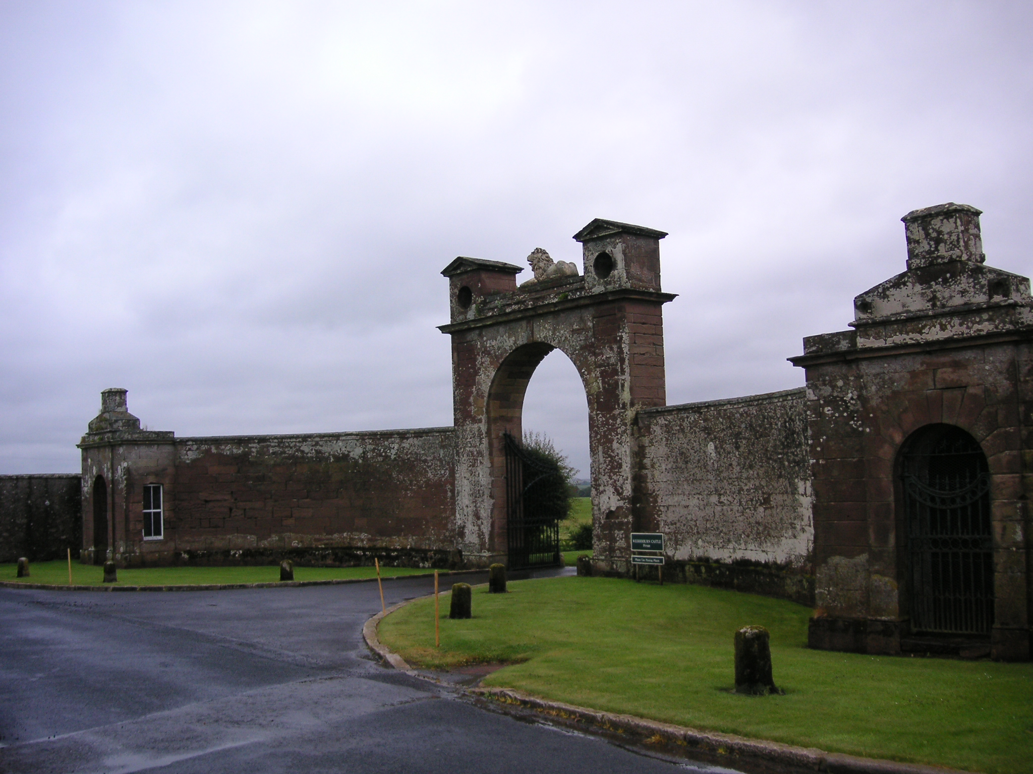 Photo of the Main Gate entering the grounds of Wedderburn Castle (Duns, Scotland). Taken after a thunderstorm. Dimensions: 2048 x 1536.